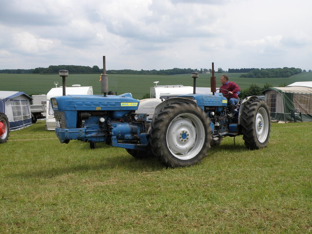 The Doe Dual Drive 130 on show at the Codicote Steam and Country Show, Codicote, Hertfordshire, Great Britain. The 130 was the last throw of the Doe conversion. Other manufacturers were making standard tractors with bigger engines and refined four wheel drive systems. This one utilises two Ford 5000 skid units and is coupled together with the Doe system.